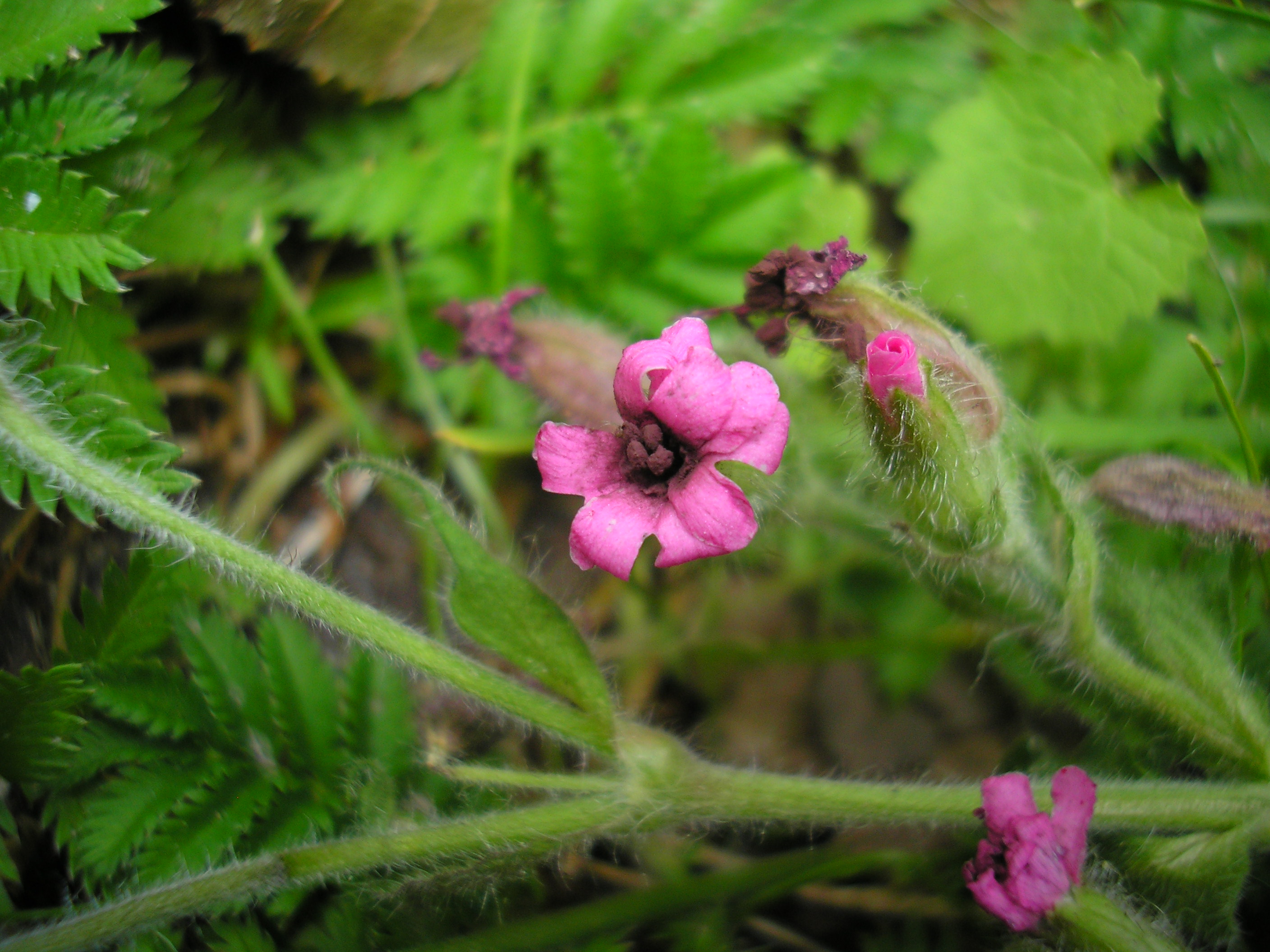 Smut fungi Microbotryum lychnidis-dioicae on Silene dioicaa